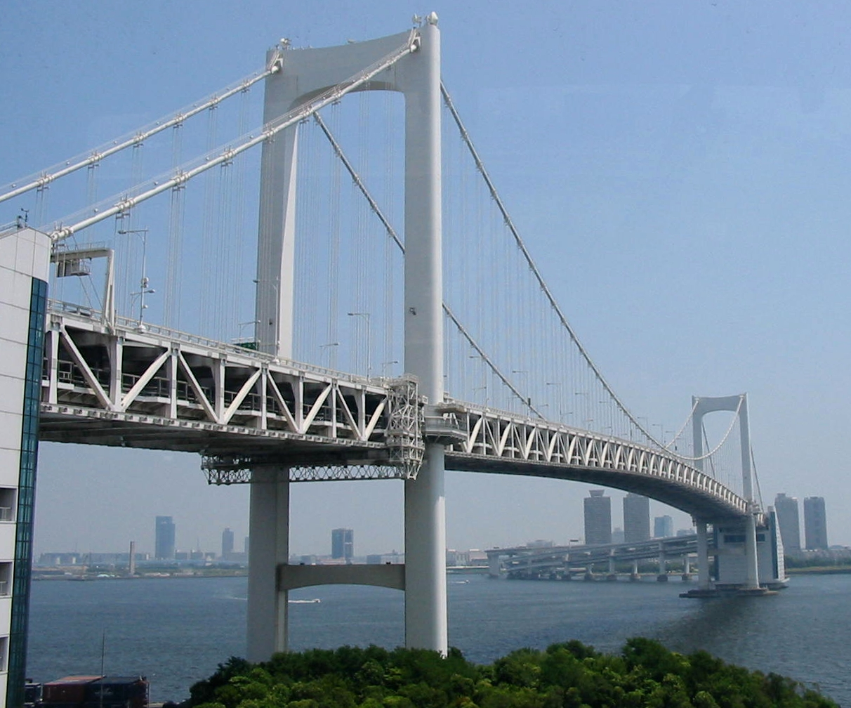 Rainbow Bridge, Tokyo